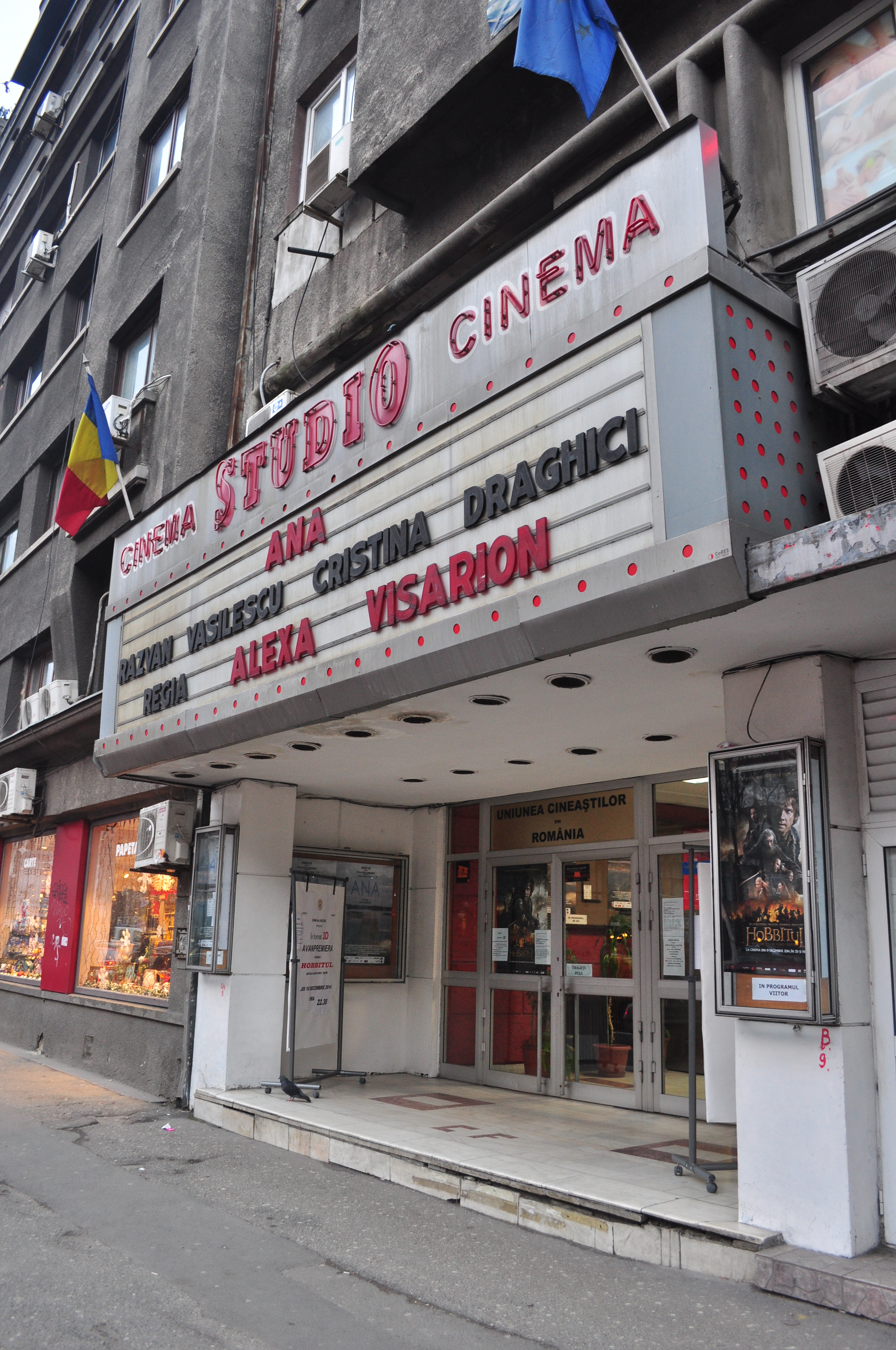 Cinema Studio and UCIN (Uniunea Cineaştilor din România), Bulevardul Gen. Gheorghe Magheru 29, Bucharest, Romania.